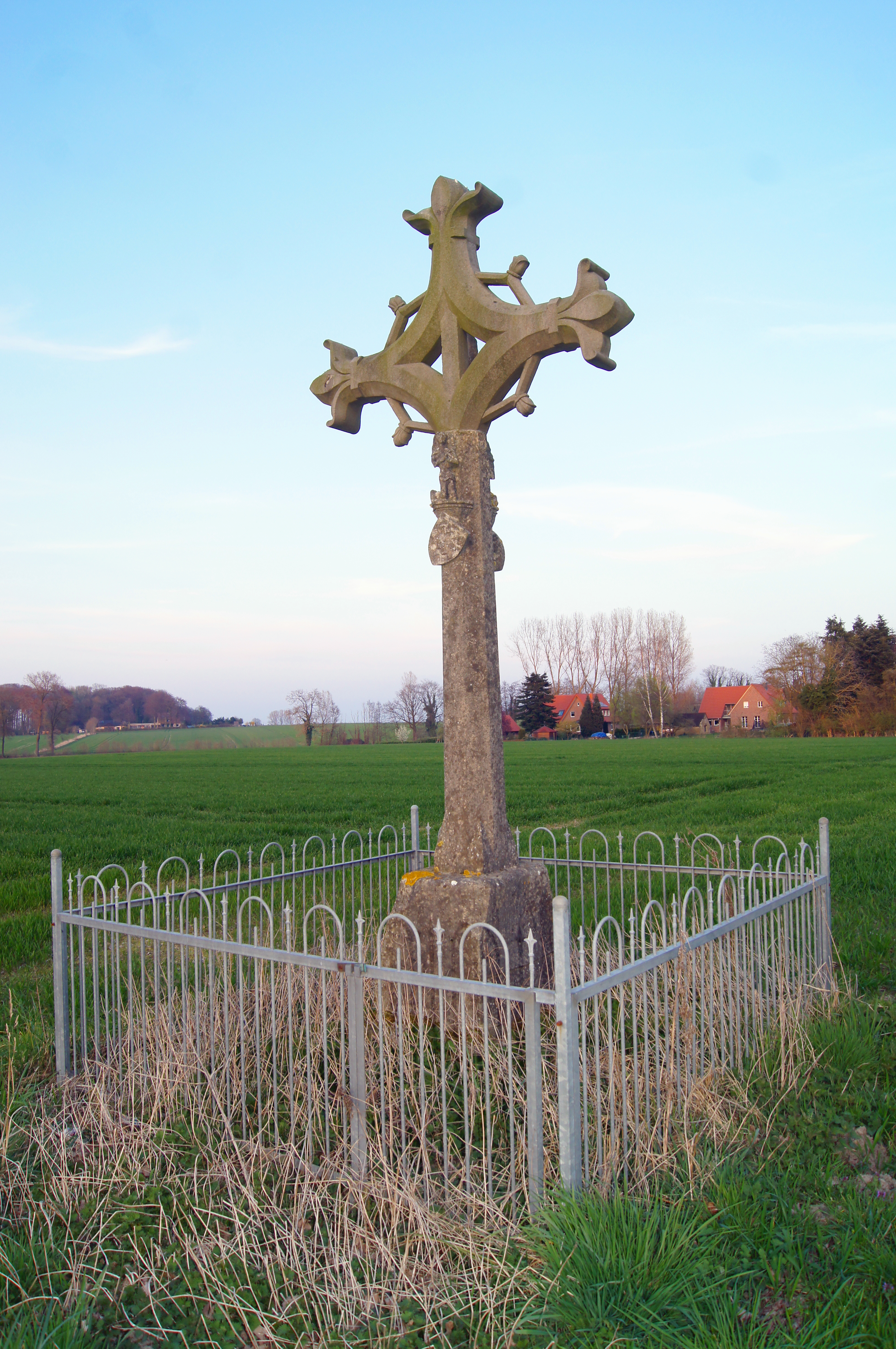 Poppenbecker Kreuz is a stone cross made of Baumberg-limestone in Havixbeck. This is a photograph of an architectural monument.